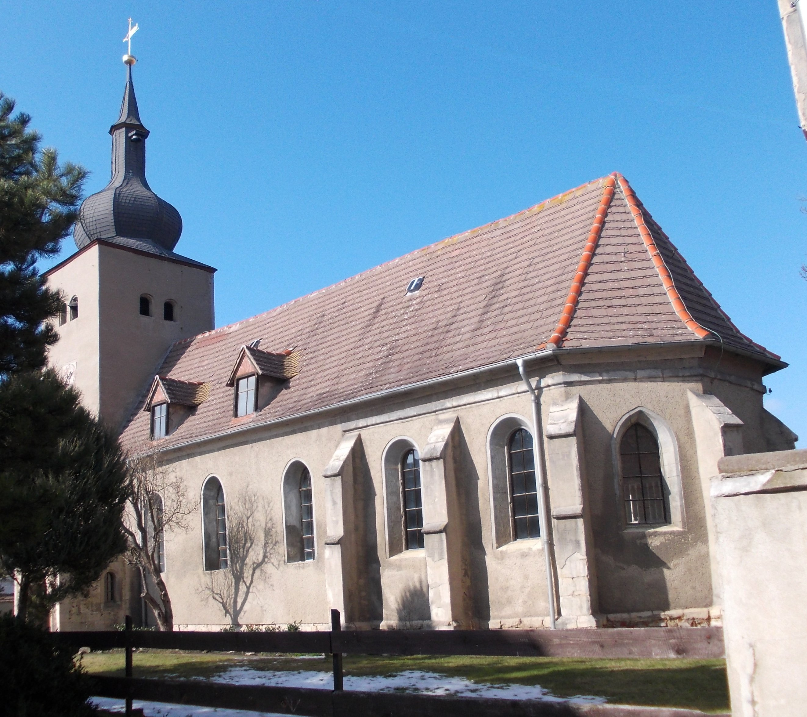 Grace church in Bedra (Braunsbedra, district of Saalekreis, Saxony-Anhalt)